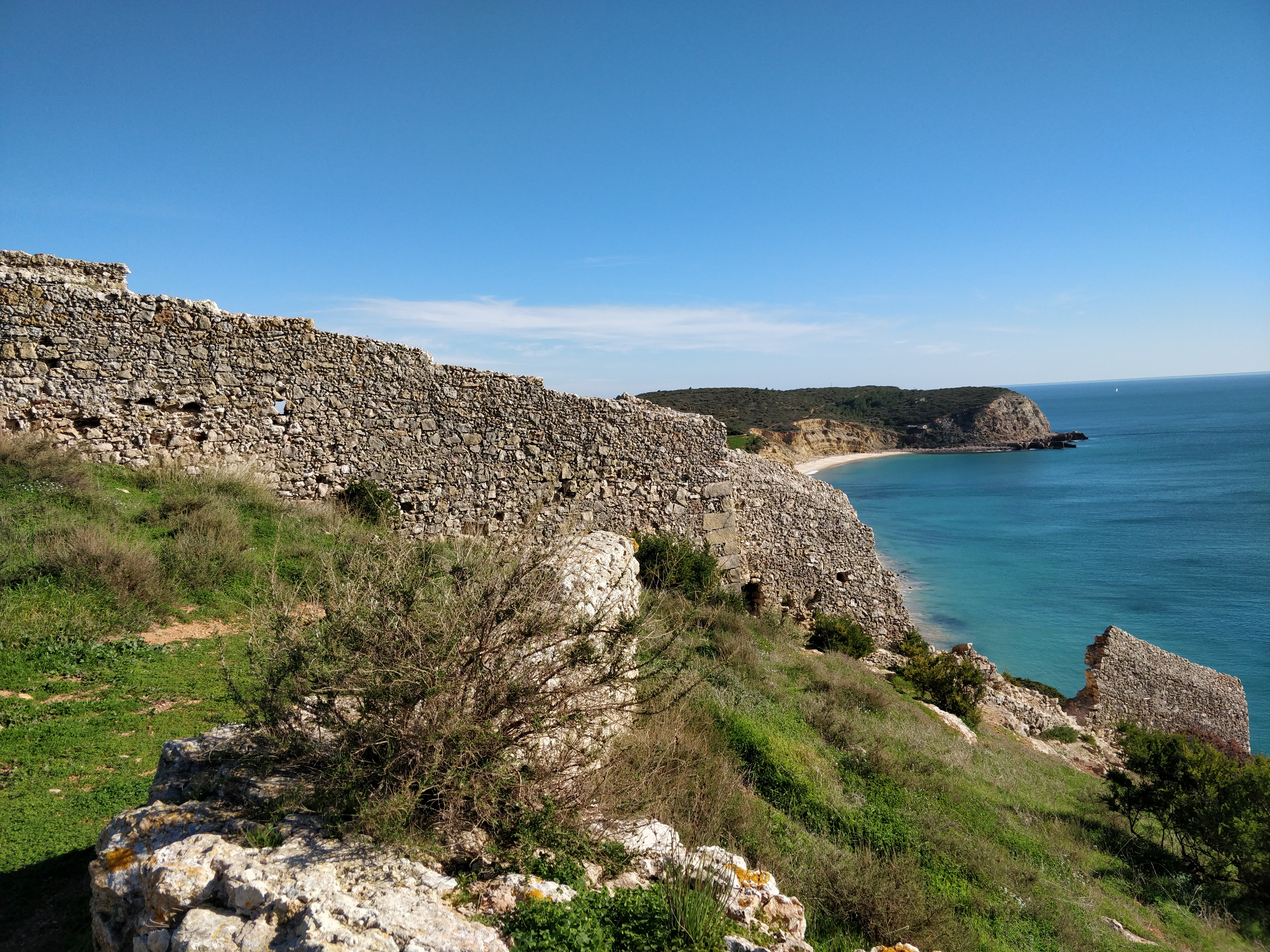 Side view of the Fort of Almadena, Algarve, Portugal, looking east